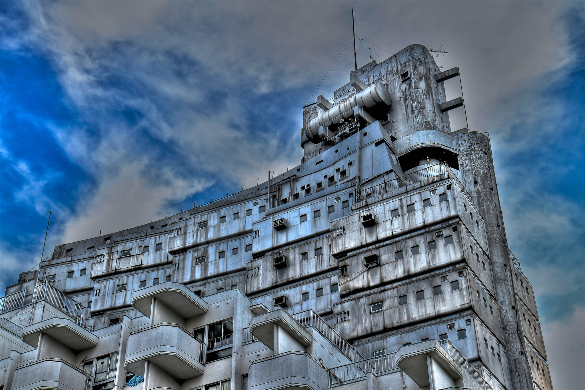 The New Sky Building, Shinjuku, Tokyo.